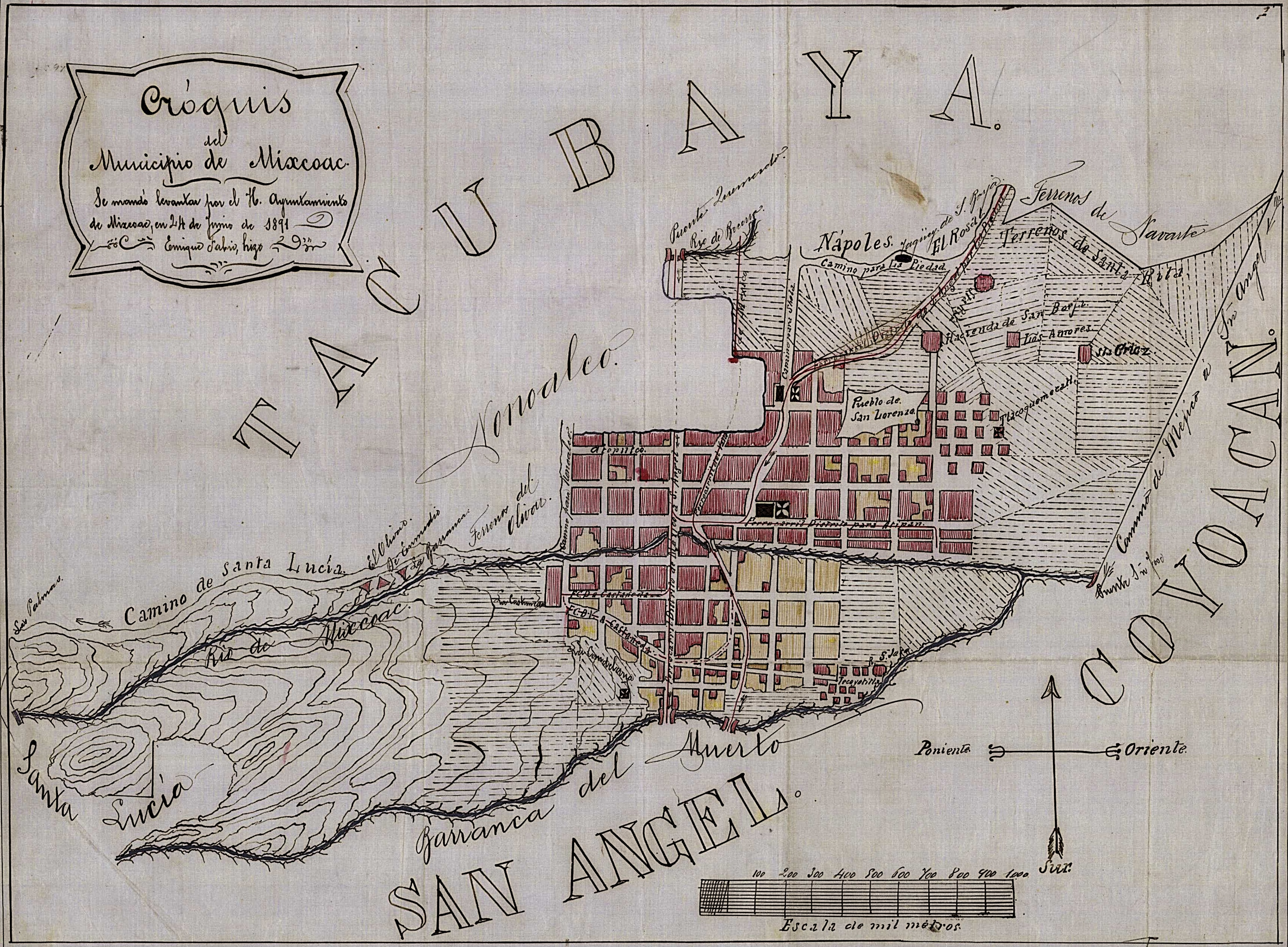 Map of Mixcoac Municipality, Mexican Federal District